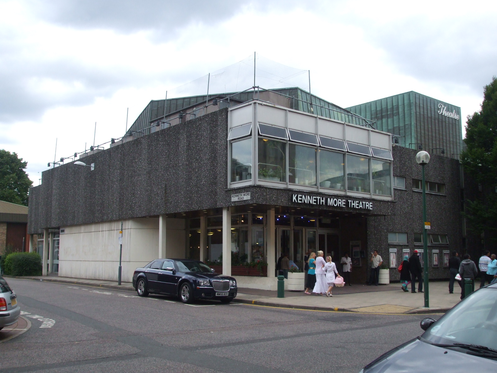 Kenneth More Theatre, Oakfield Road, Ilford